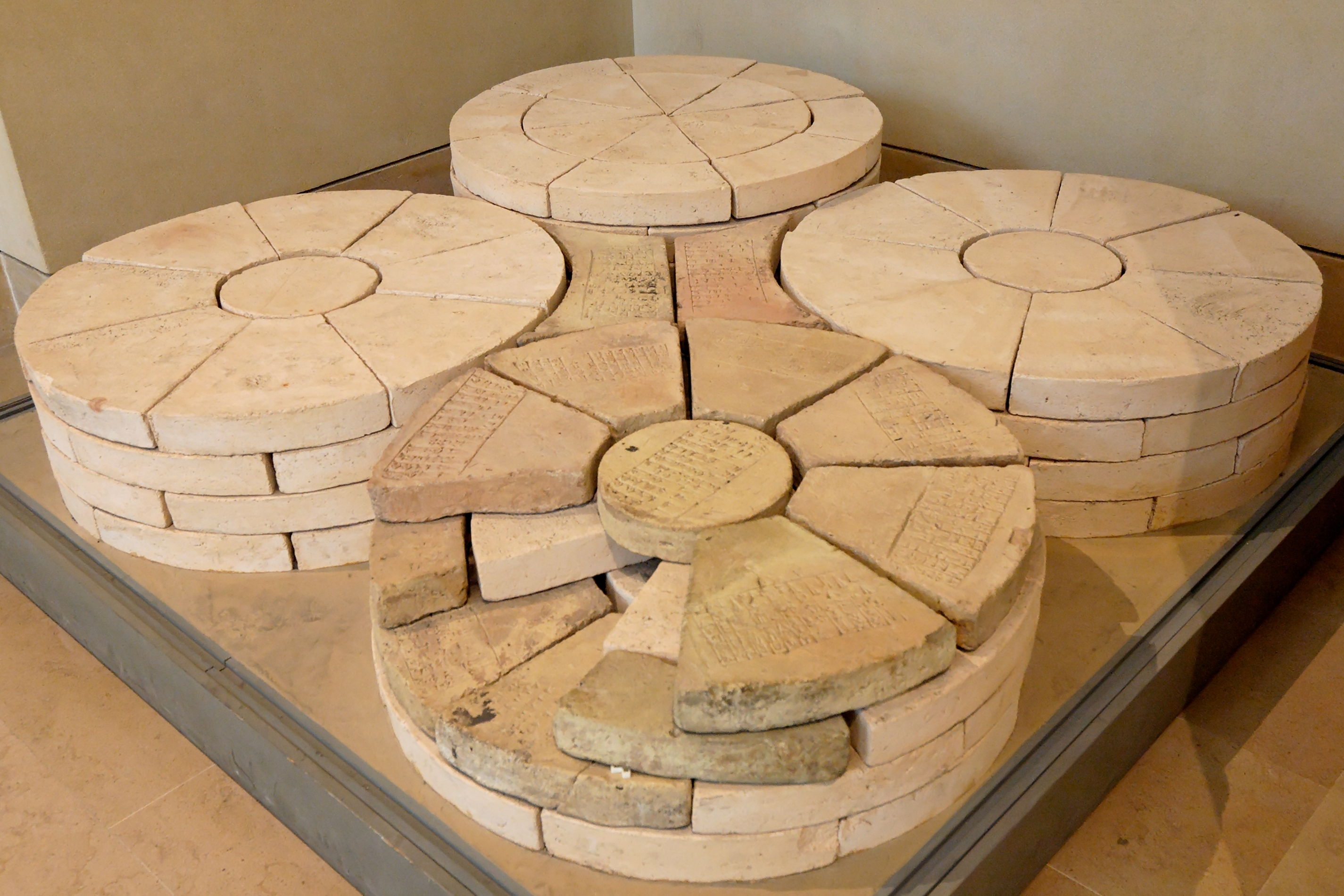 Strucure known as the "pillar of Gudea"—reconstitution with ancient bricks and modern copies—consisting of four round columns placed side by side. The inscription mentions a cedarwood portico (?), court of justice of Ningirsu. The destination of this monument is yet unknown. Found in the south-west of the temple of Ningirsu in Girsu. Clay, ca. 2120 BC.